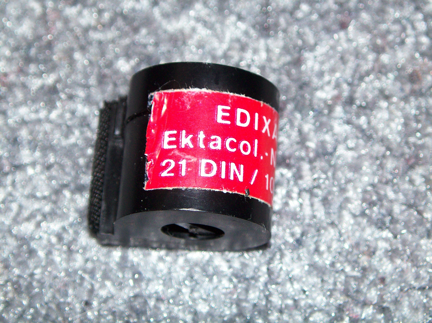 Edixa 16 Ektacolor film in RADA cassette